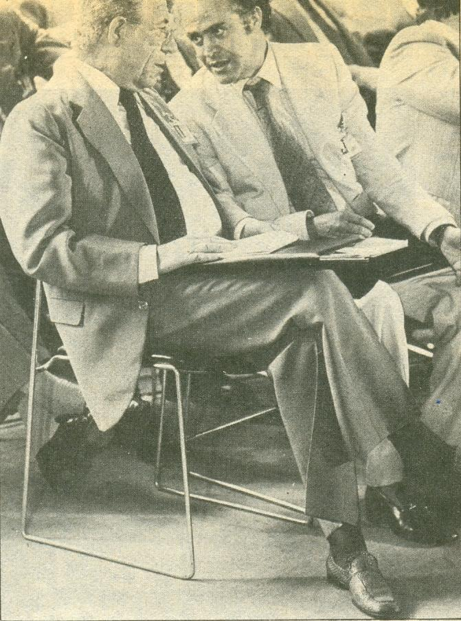 Prime Hedi Nouira (1911-1993) with Minister Mohamed Sayah (1933- ) during Socialist Destourian Party congress in 1979.